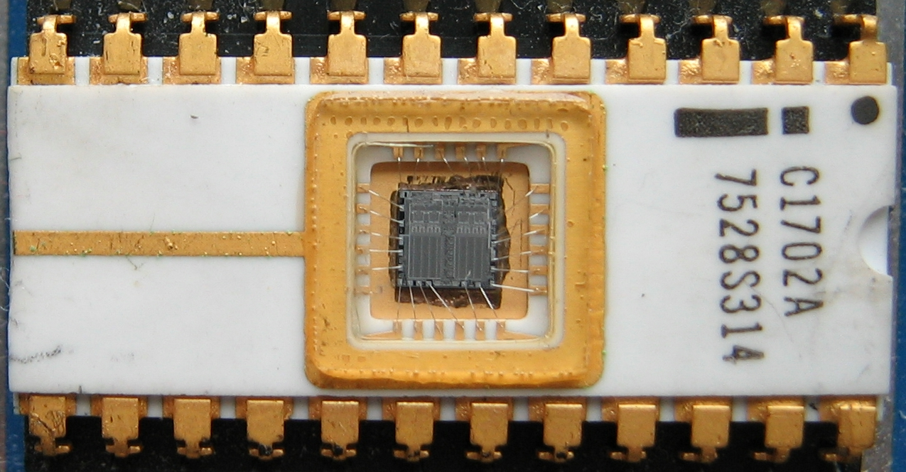 EPROM : The first INTEL EPROM, the 1702 (1971).